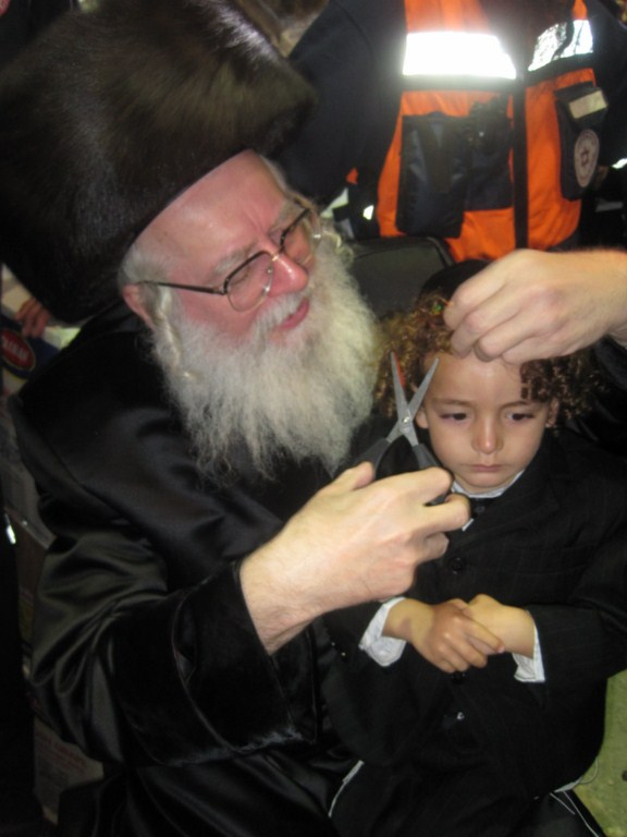 Halake, Upsherin celebration of Rabbi Shimon Bar Yochai, by Mohorosh Breslov